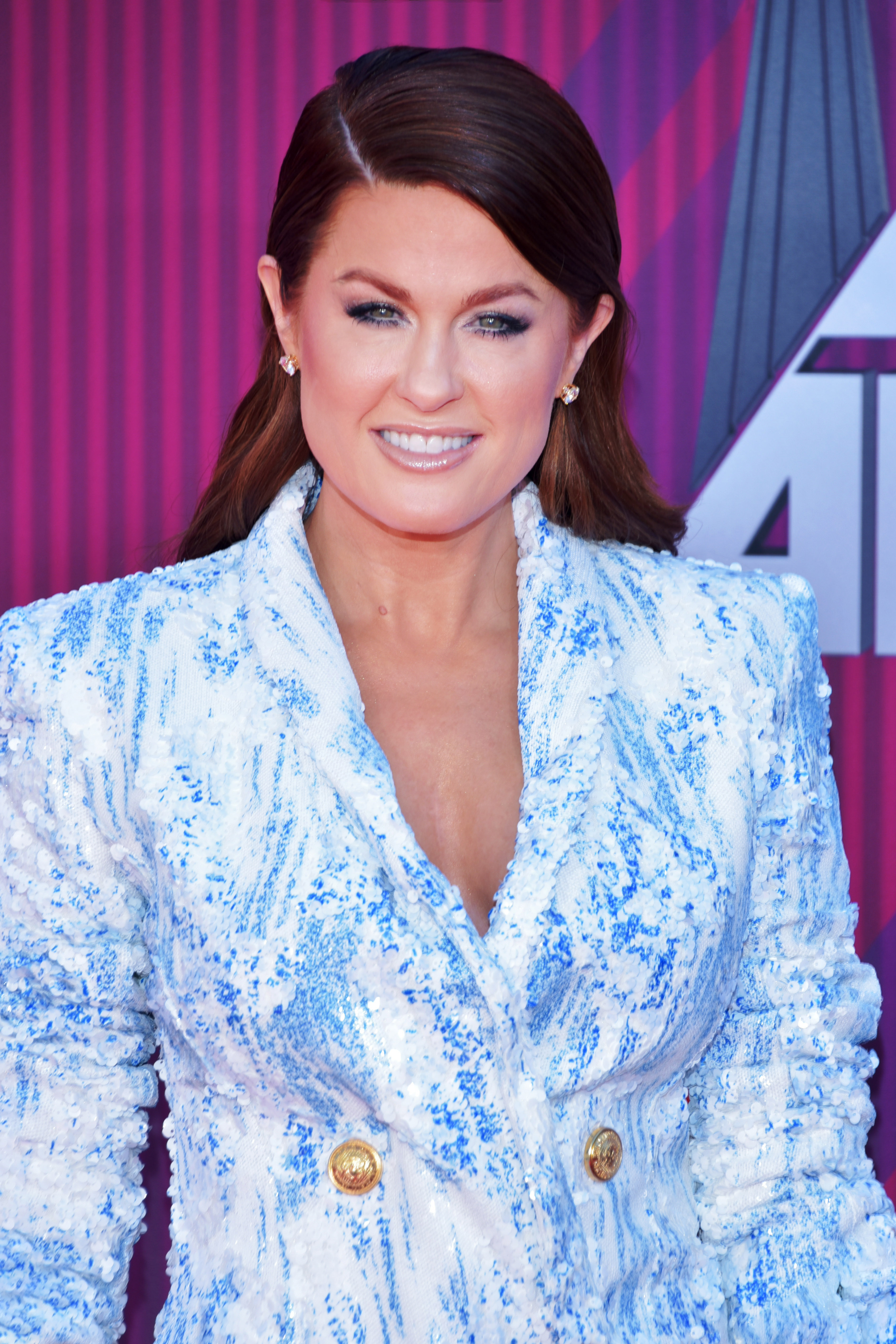 Hilary Roberts at the 2019 iHeartRadio Music Awards in Los Angeles California on March 14, 2019 - Photo by Glenn Francis of